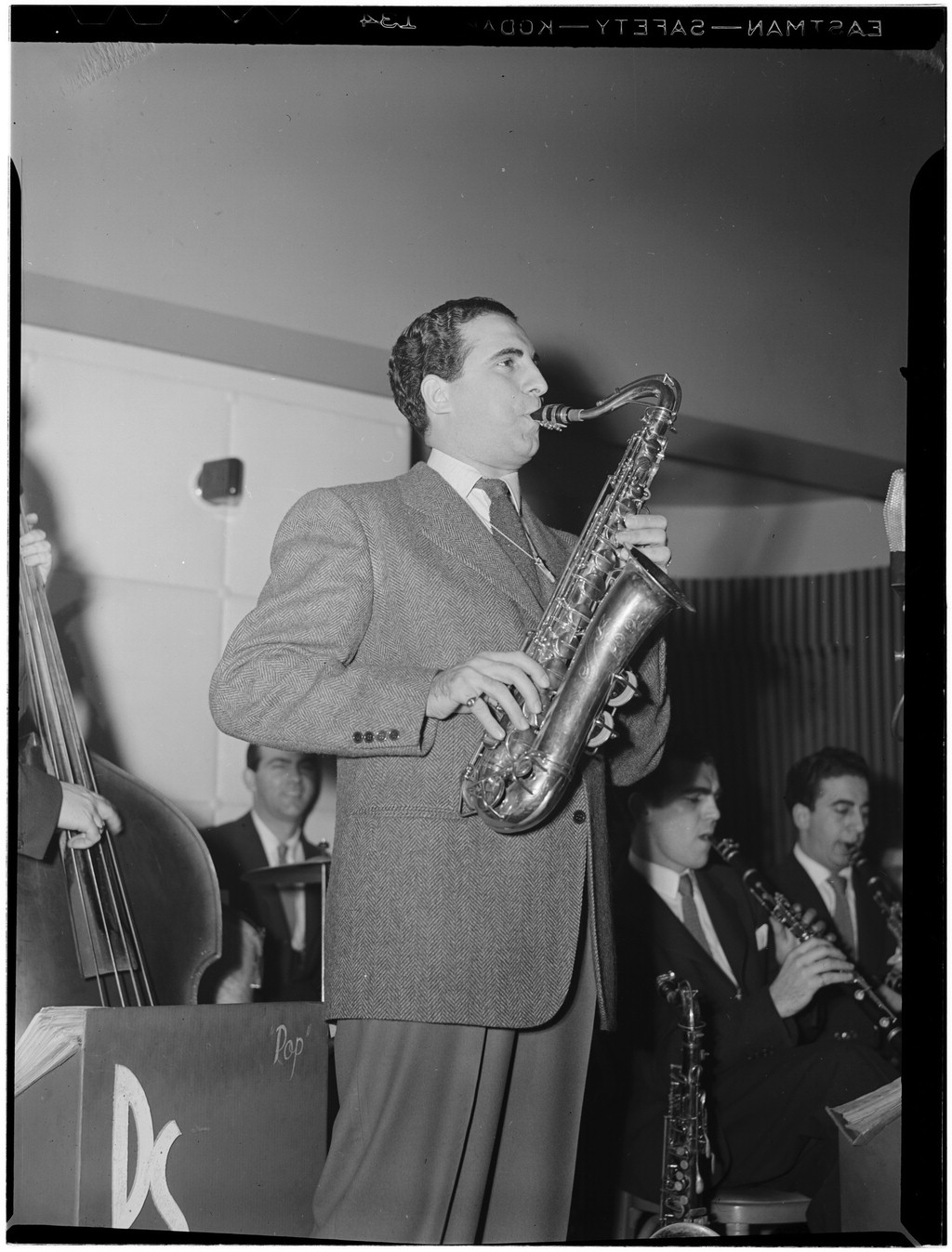 Dick Stabile (May 29, 1909, Newark - September 18, 1980, New Orleans) was an American jazz saxophonist and bandleader Gottlieb, William P., 1917-, photographer. Dick Stabile, New York, N.Y., between 1946 and 1948] 1 negative : b&w ; 3 1/4 x 4 1/4 in. Notes: Gottlieb Collection Assignment No. 134 Reference print available in Music Division, Library of Congress. Purchase William P. Gottlieb Forms part of: William P. Gottlieb Collection (Library of Congress). Subjects: Stabile, Dick Jazz musicians--1940-1950. Saxophonists--1940-1950. Format: Portrait photographs--1940-1950. Group portraits--1940-1950. Film negatives--1940-1950. Rights Info: Mr. Gottlieb has dedicated these works to the public domain, but rights of privacy and publicity may apply. Repository: (negative) Library of Congress, Prints & Photographs Division, Washington D.C. 20540 USA, (reference print) Library of Congress, Music Division, Washington D.C. 20540 USA, Part Of: William P. Gottlieb Collection (DLC) 99-401005 General information about the Gottlieb Collection is available at Persistent URL: Call Number: LC-GLB13- 0805